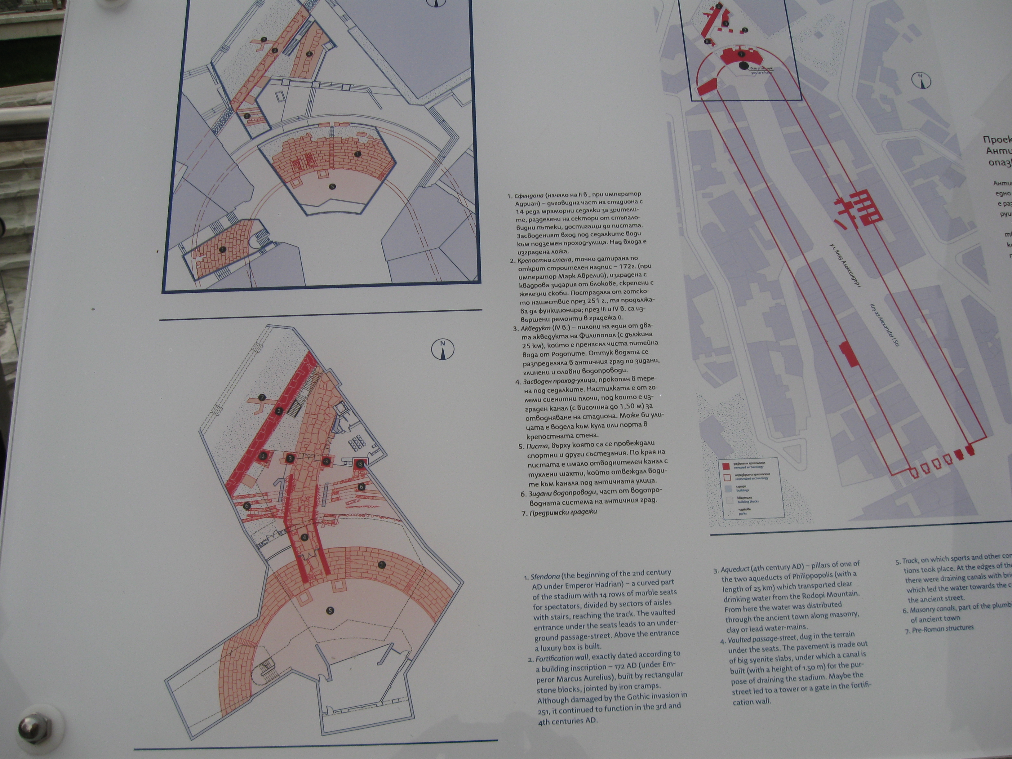 THE ANCIENT STADIUM OF PHILIPPOPOLIS IN PLOVDIV